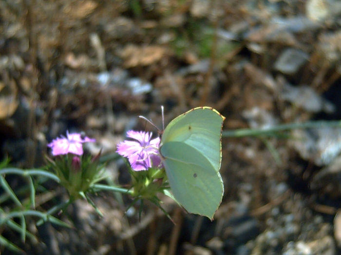 A work release by Javier martin Francisco Javier Martin Lopez, a plant Dianthus carthusianorum subsp. carthusianorum, in Sierra Madrona, Ciudad Real, Spain 2006, May 25. A free donation to Wikipedia.